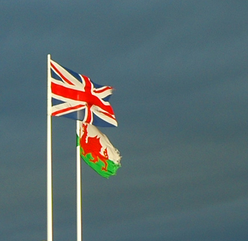 Flags of the UK and Walesflags